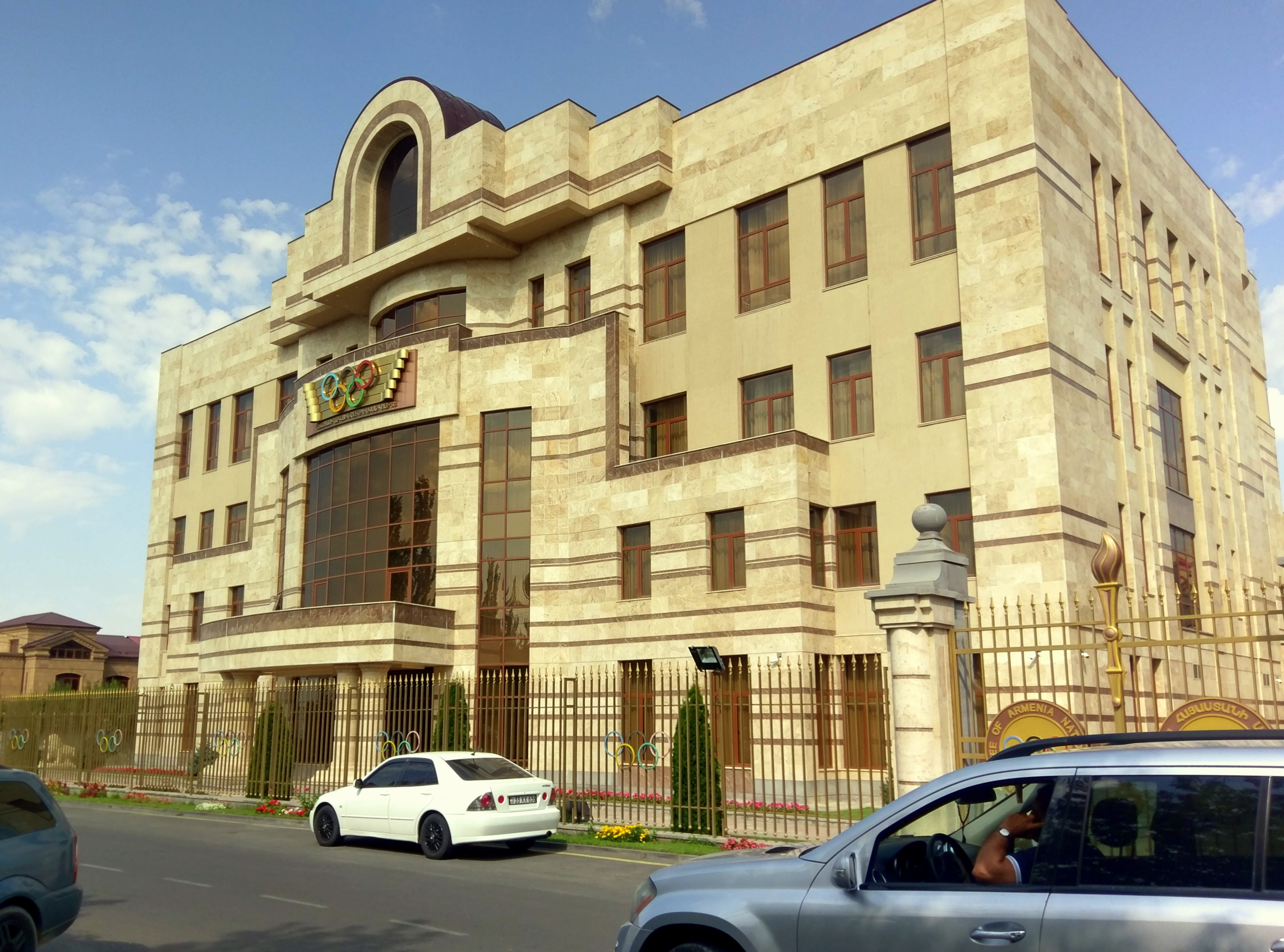 Olympavan